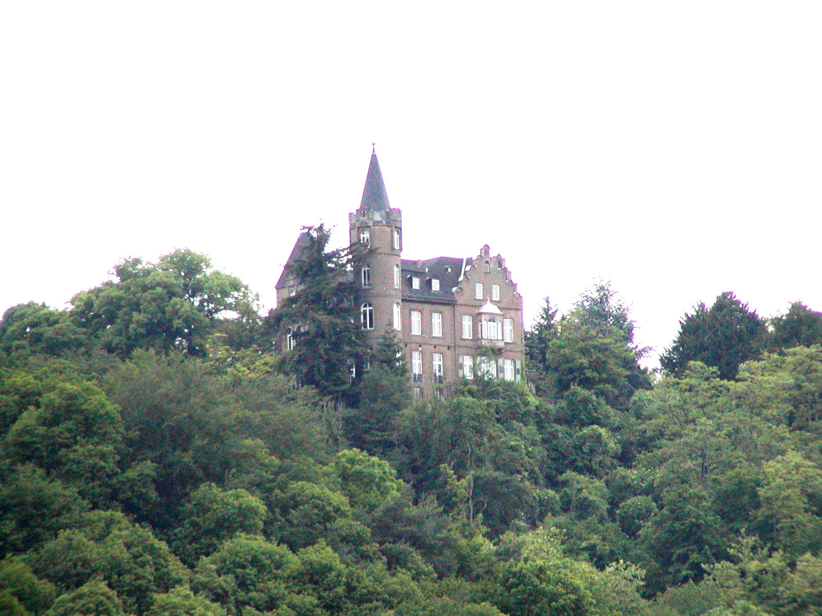 Castle Liebeneck at Rhein Rive, Germany